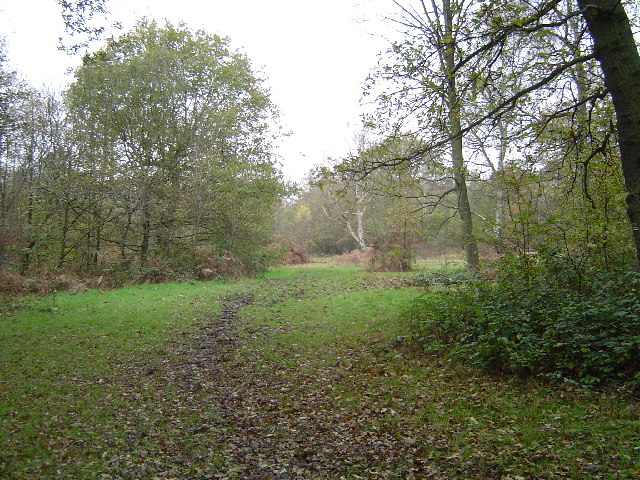 Stanmore Common. Looking north. Typical mix of woodland and heathland.